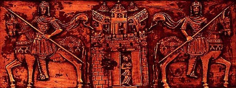 Medieval metal plate with acrites (frontiersmen) as inspired from literature.